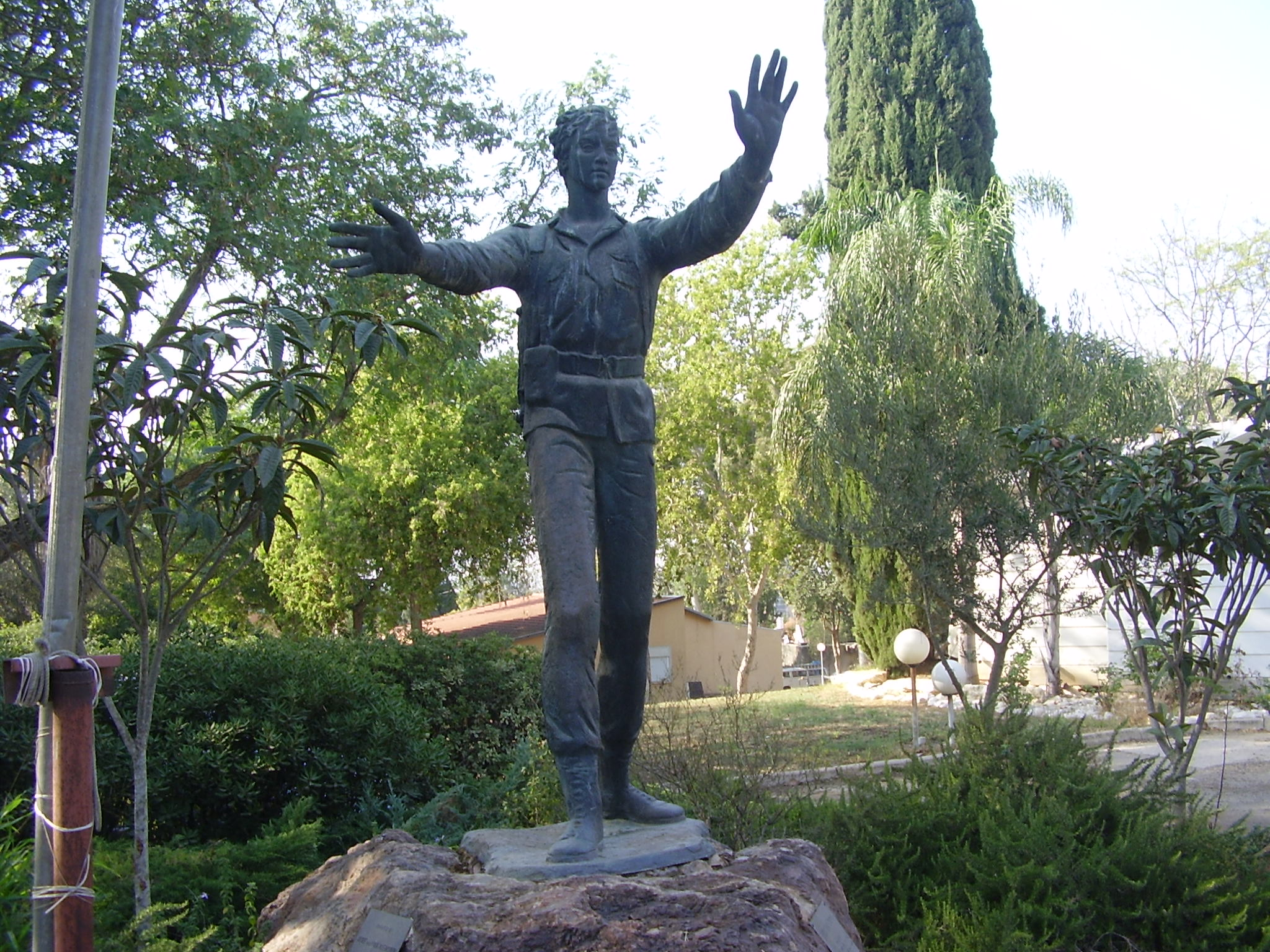 statue of gad manela in kibbutz tel yitzhak